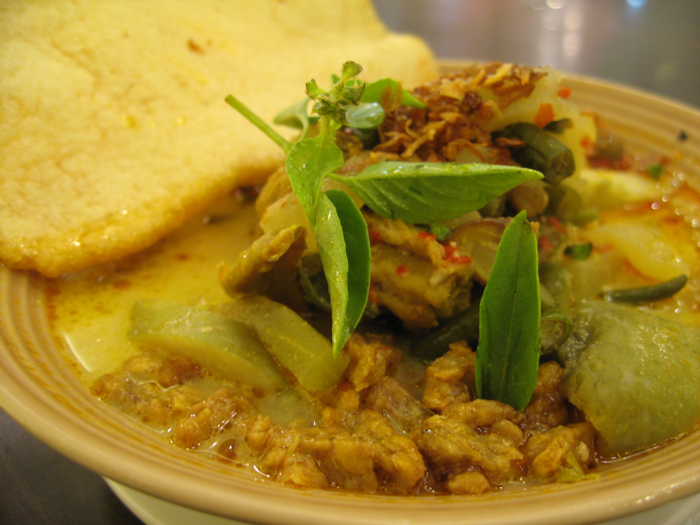 Lontong Cap Gomeh. This is an authentic Indoneisan one dish meal with rice cakes (lontong), coconut milk and broth, sweetish soybean cake (tempe), shreds of chicken breast, topped with kemangi leaf and prawn cracker.